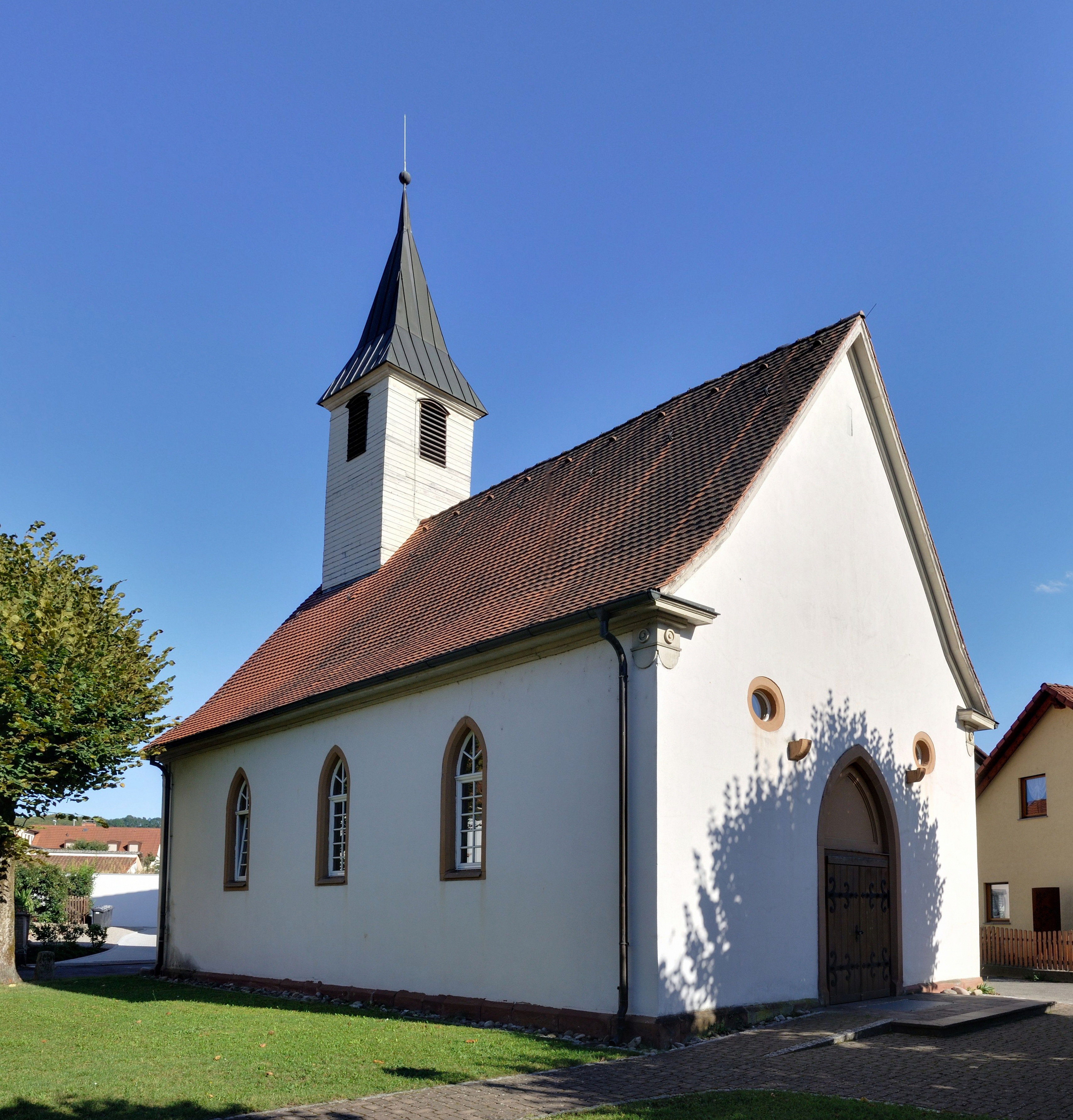 Schopfheim: Church Saint Agathe